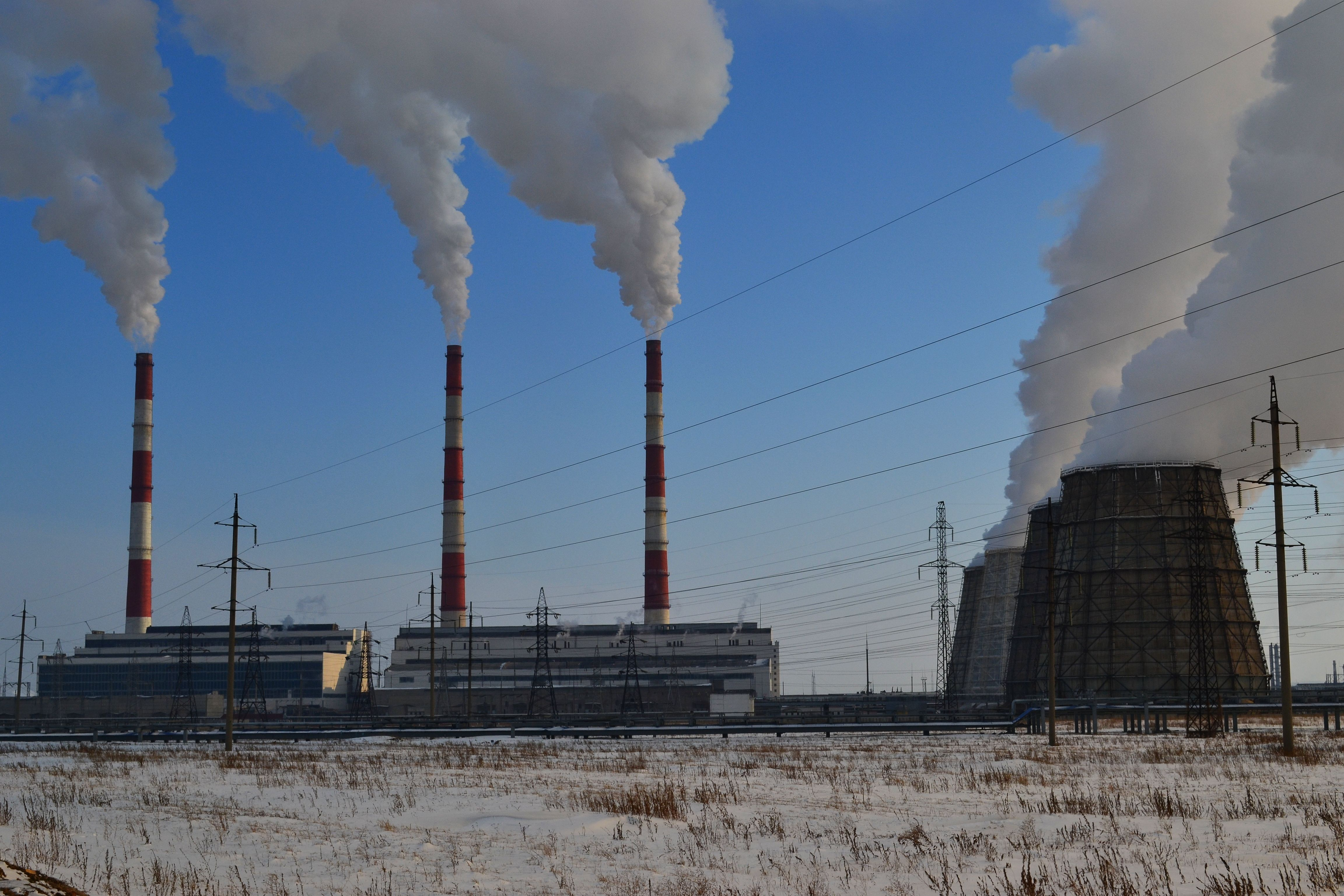 Новосалаватская ТЭЦ